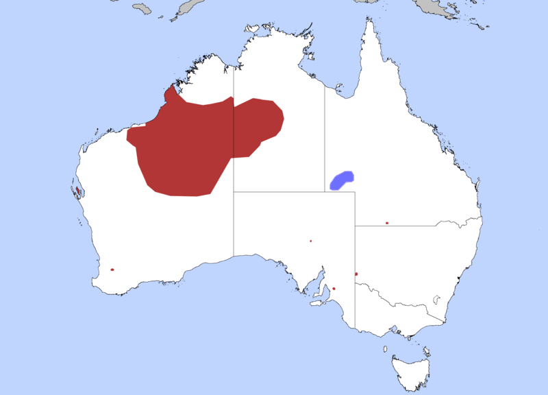 The Bilby's Distribution Map.